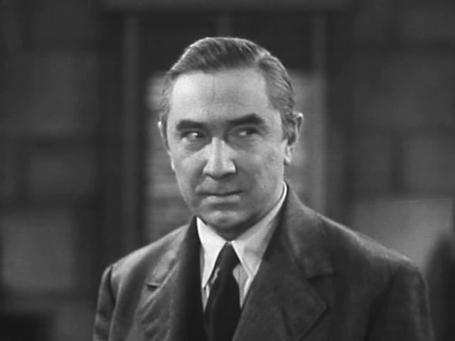 Bela Lugosi in "The Devil Bat" (1940), which is now in the public domain.